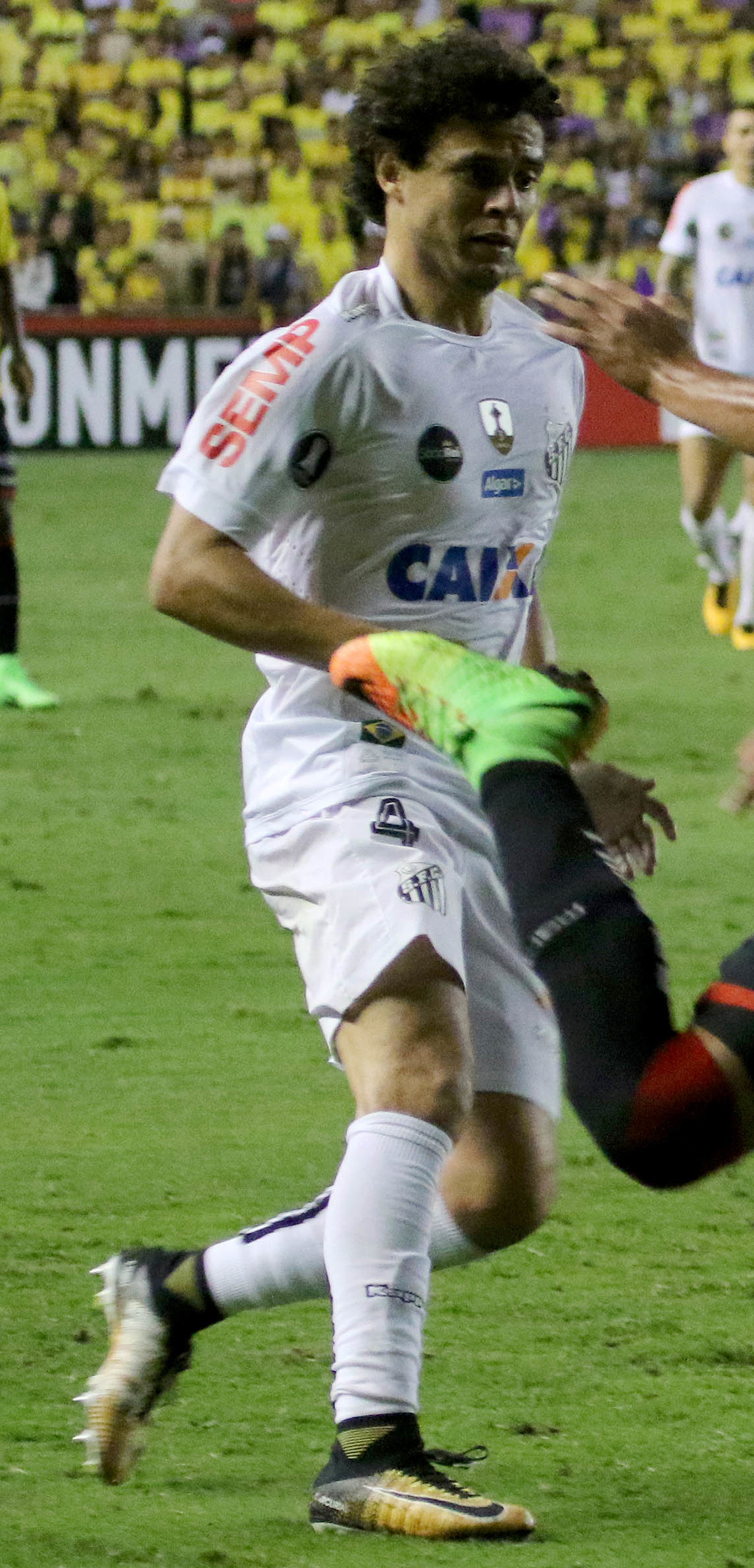 Guayaquil, 13 de septiembre del 2017 (Andes).-En el estadio Monumental Barcelona de Ecuador enfrenta al Santos de Brasil en partido de ida por cuartos de final de la Copa LibertadoresFoto:Andes/César Muñoz